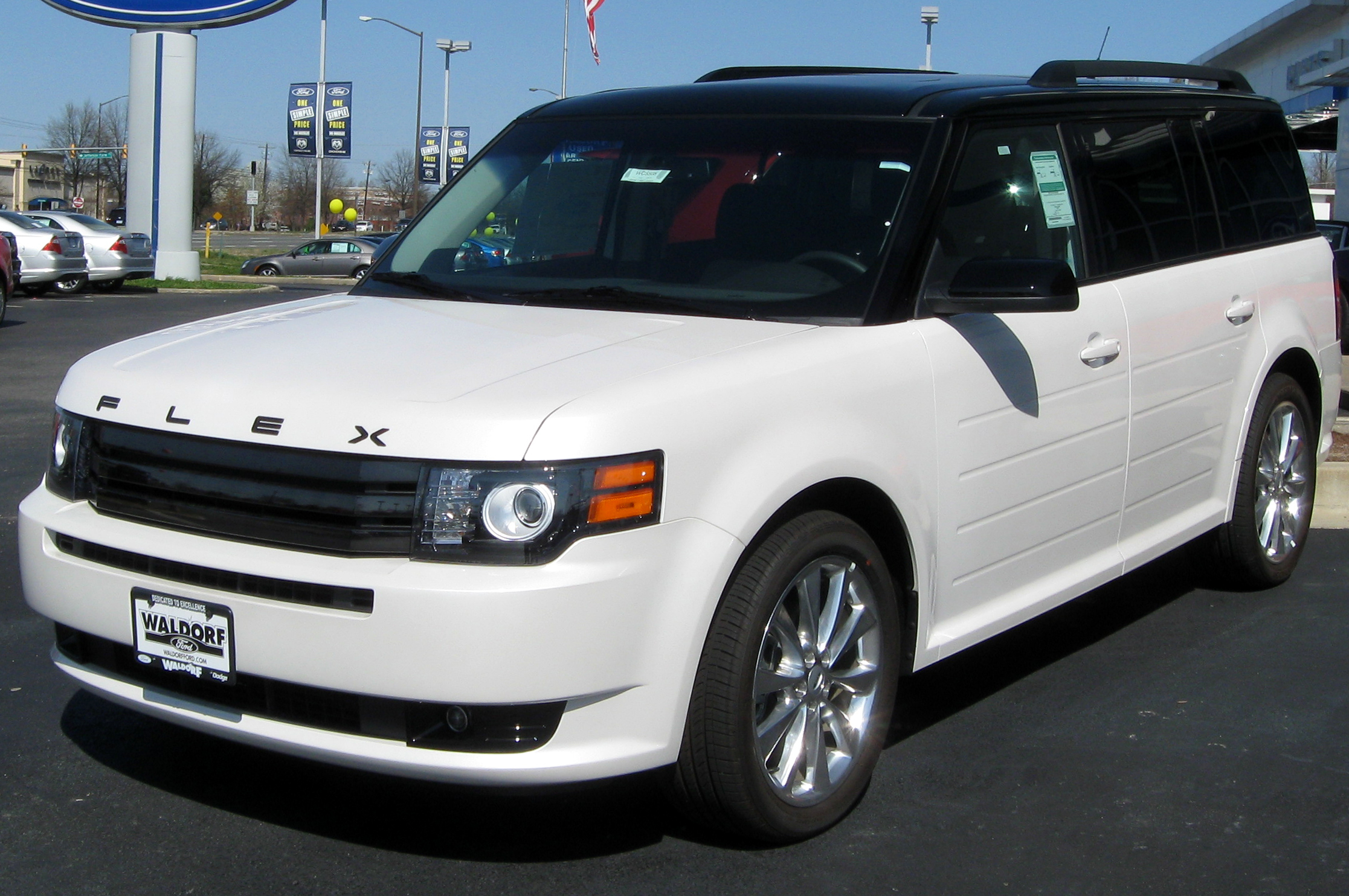 2012 Ford Flex photographed in Waldorf, Maryland, USA.